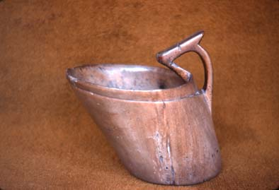 A "Kaiku". Basque Etnography.